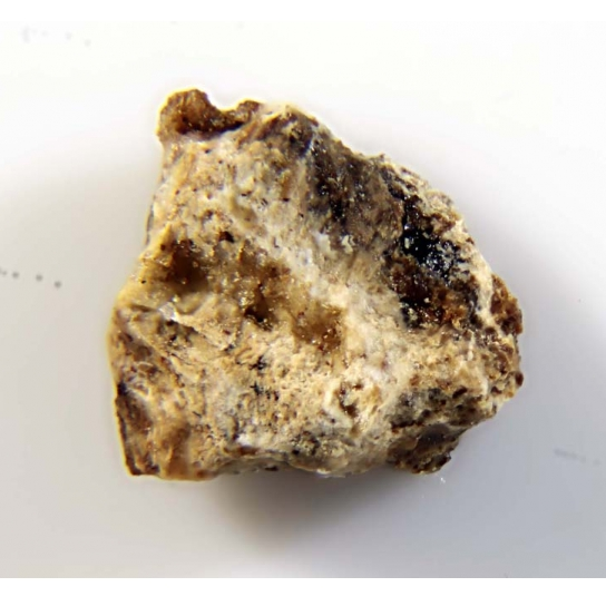 Buff to tan colored almost brown biphosphammite crystals associated to white archerite from the type locality in Australia: Murra-el-elevyn Cave, Dundas Shire, Western Australia, Australia.